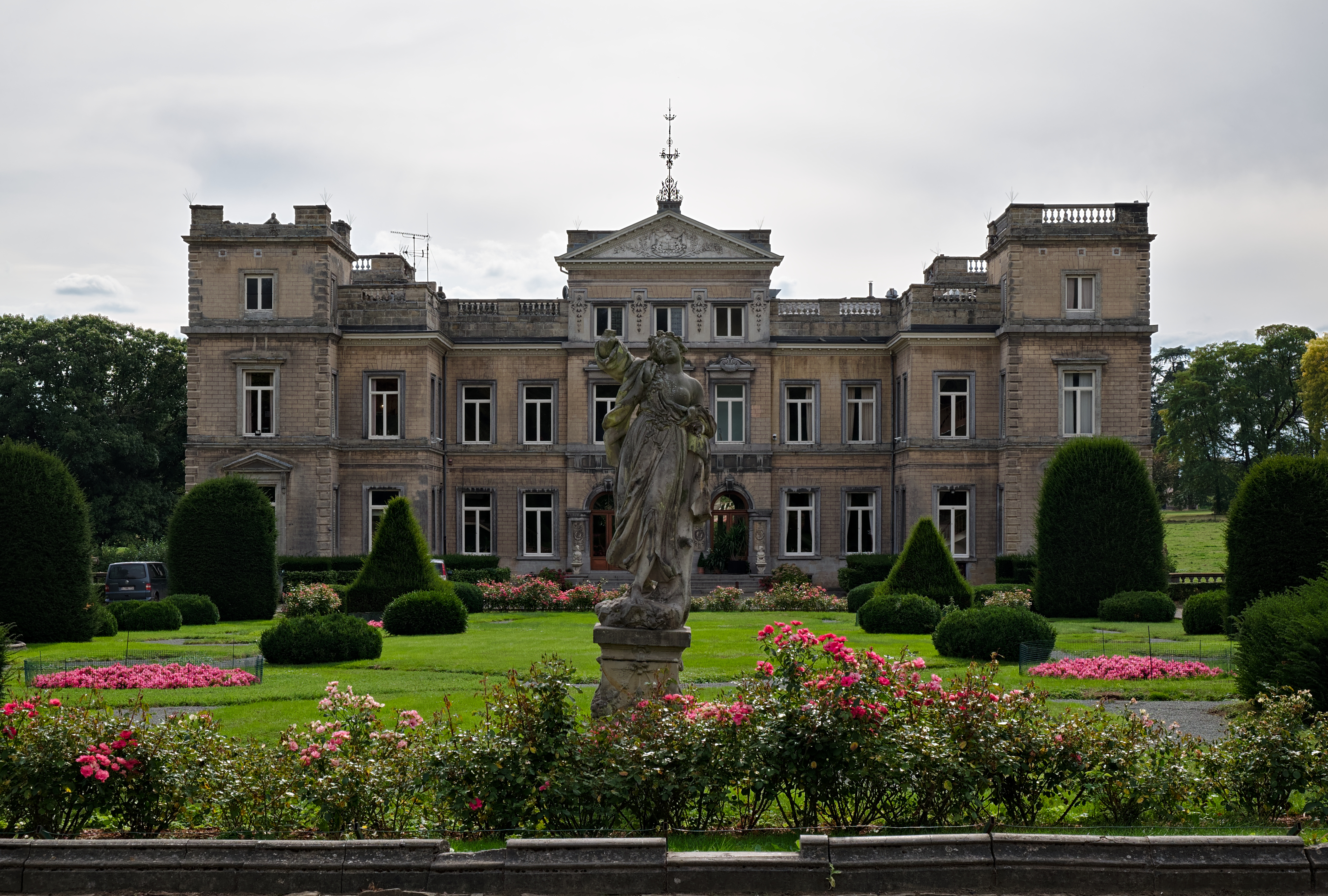 Castle Berliere in Ath